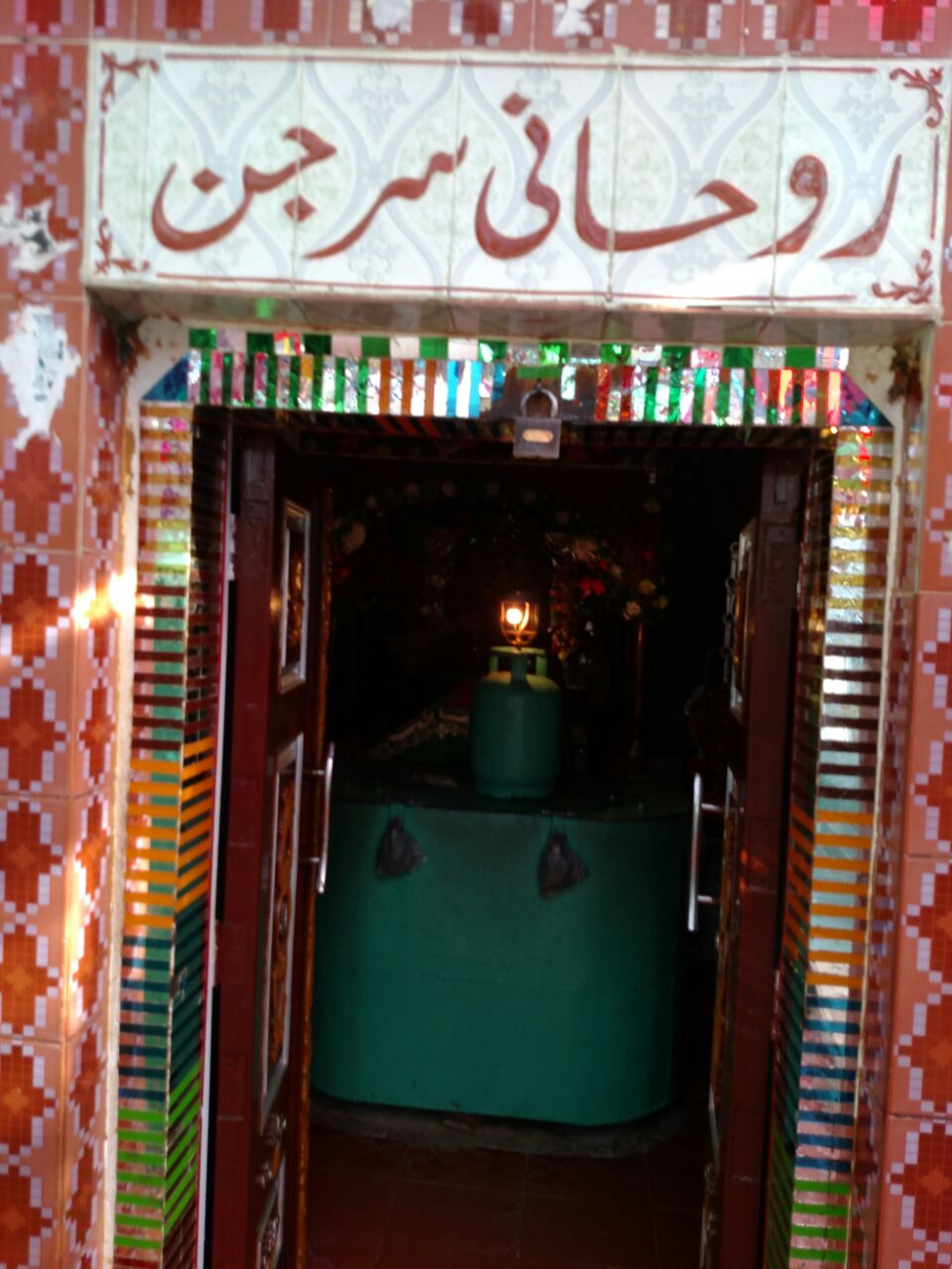 shah aqeeq